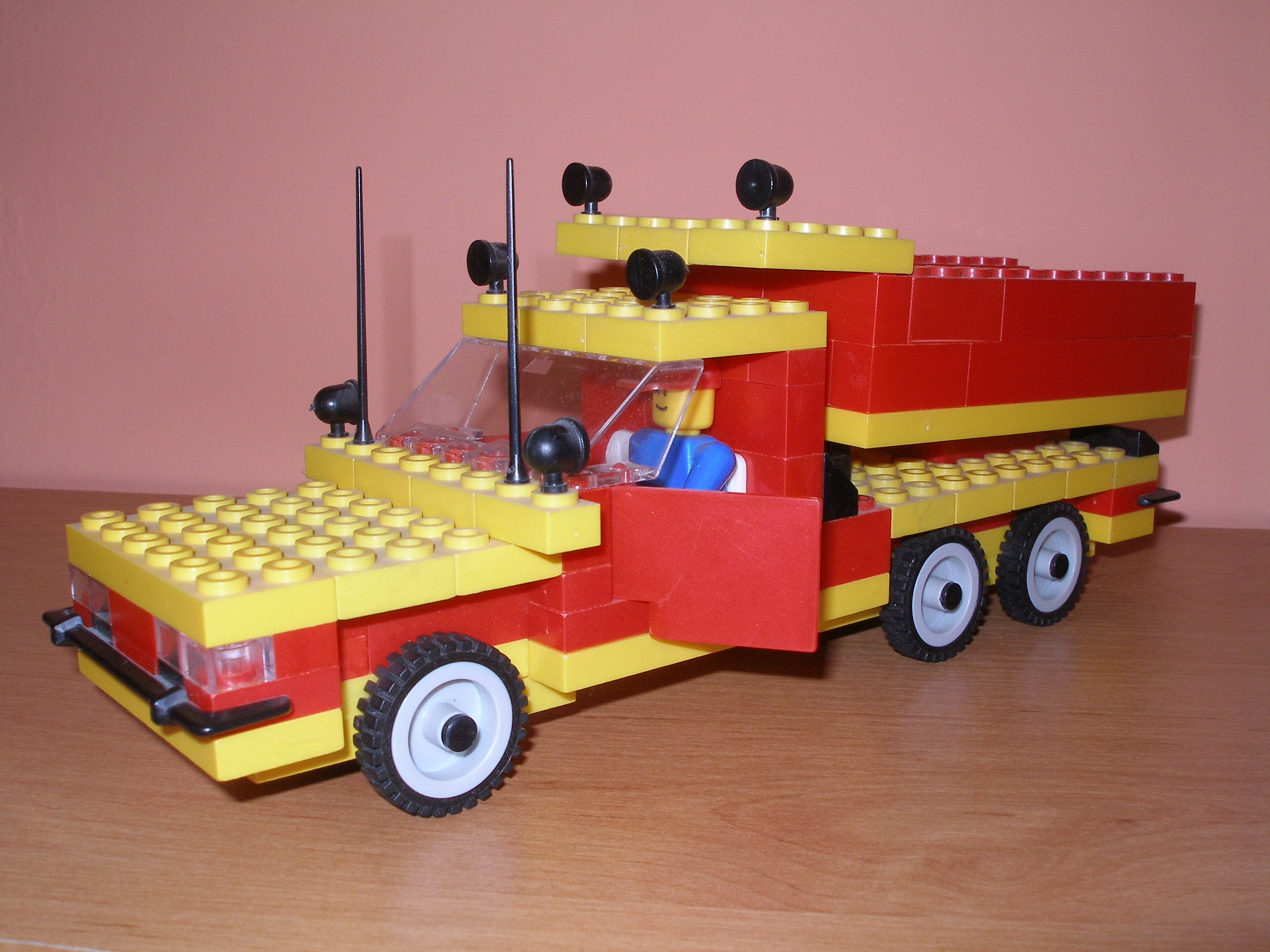 Dump Truck from Cheva.